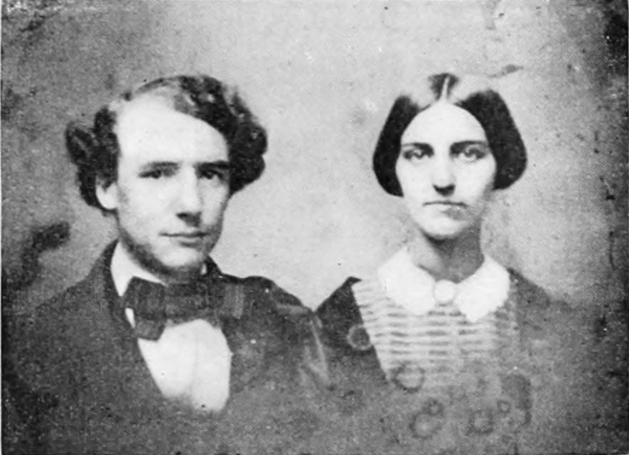 John H. Shedd and Sarah Jane Dawes Shedd, from a 1905 publication. Photograph probably taken in mid 1800s